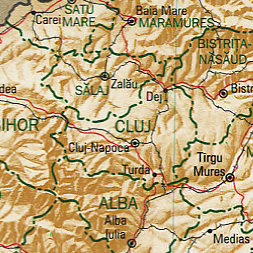 Map of Cluj County, Romania.